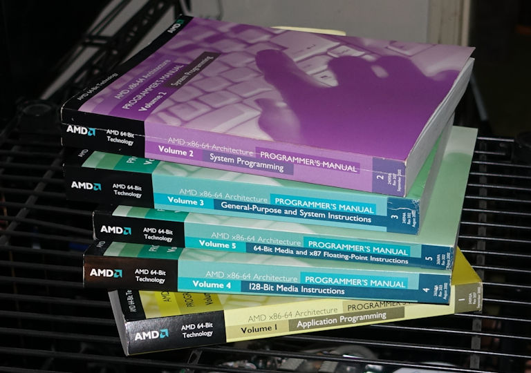 The five hardcopy volumes of AMD's "x86-64 Architecture Programmer's Manual", distributed by AMD Corporation in 2002.